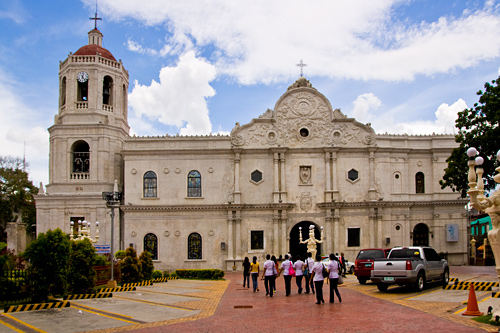 A view of the Cebu Metropolitan Cathedral.